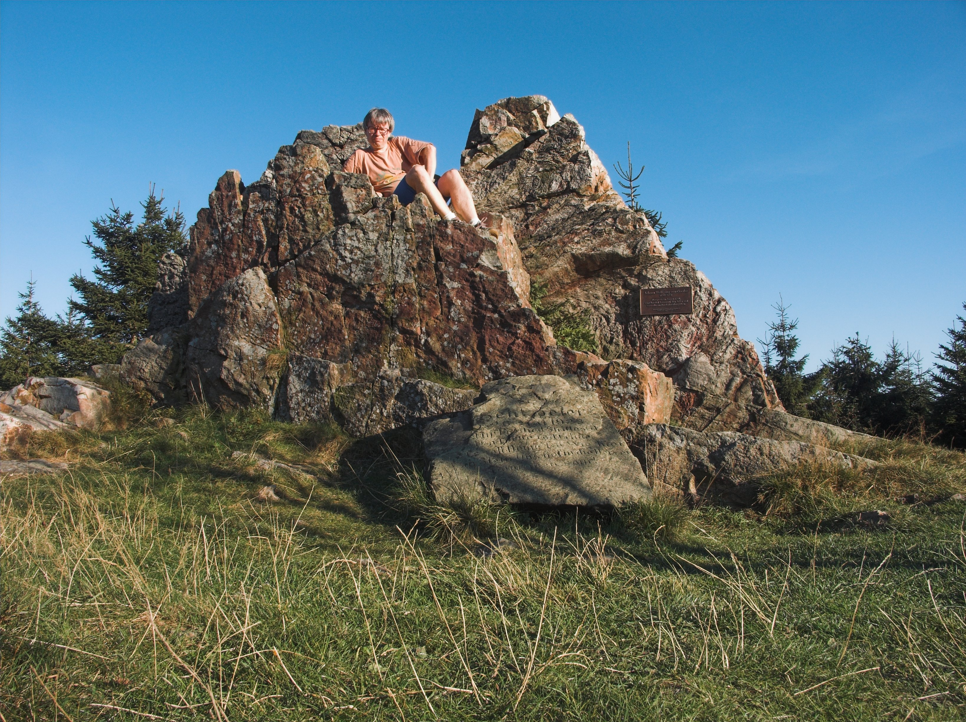 Hanskühnenburg Rocks in the Harz mountains, Germany